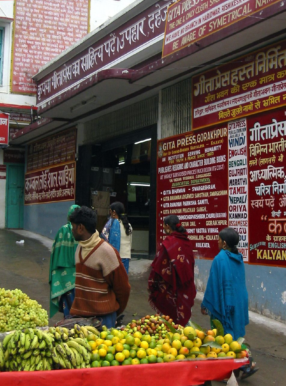 An Outlet of Gita Press, Gorakhpur, a religious publisher, at Gita Bhawan, Muni Ki Reti.